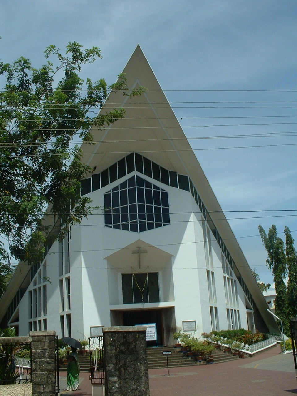 Church in Kochi